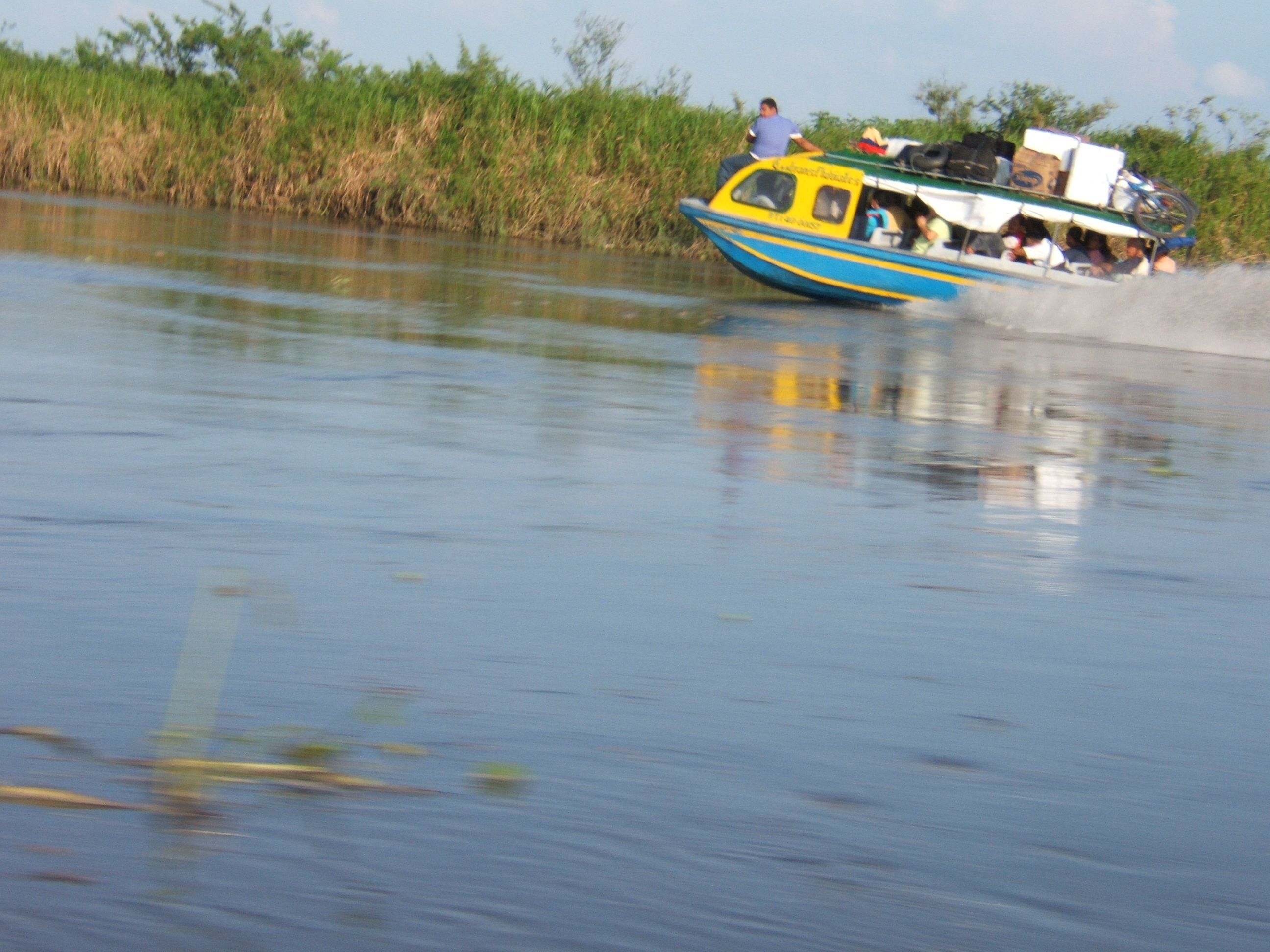 Chalupa